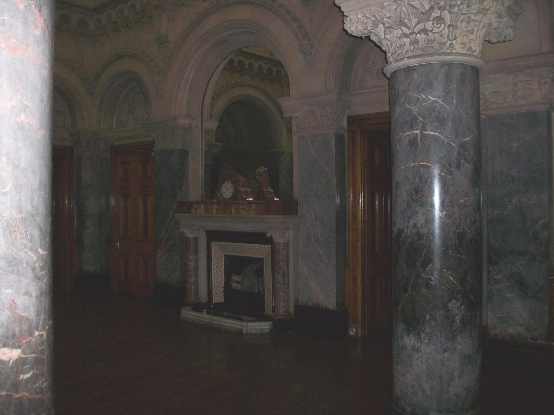 Dobroyd Castle